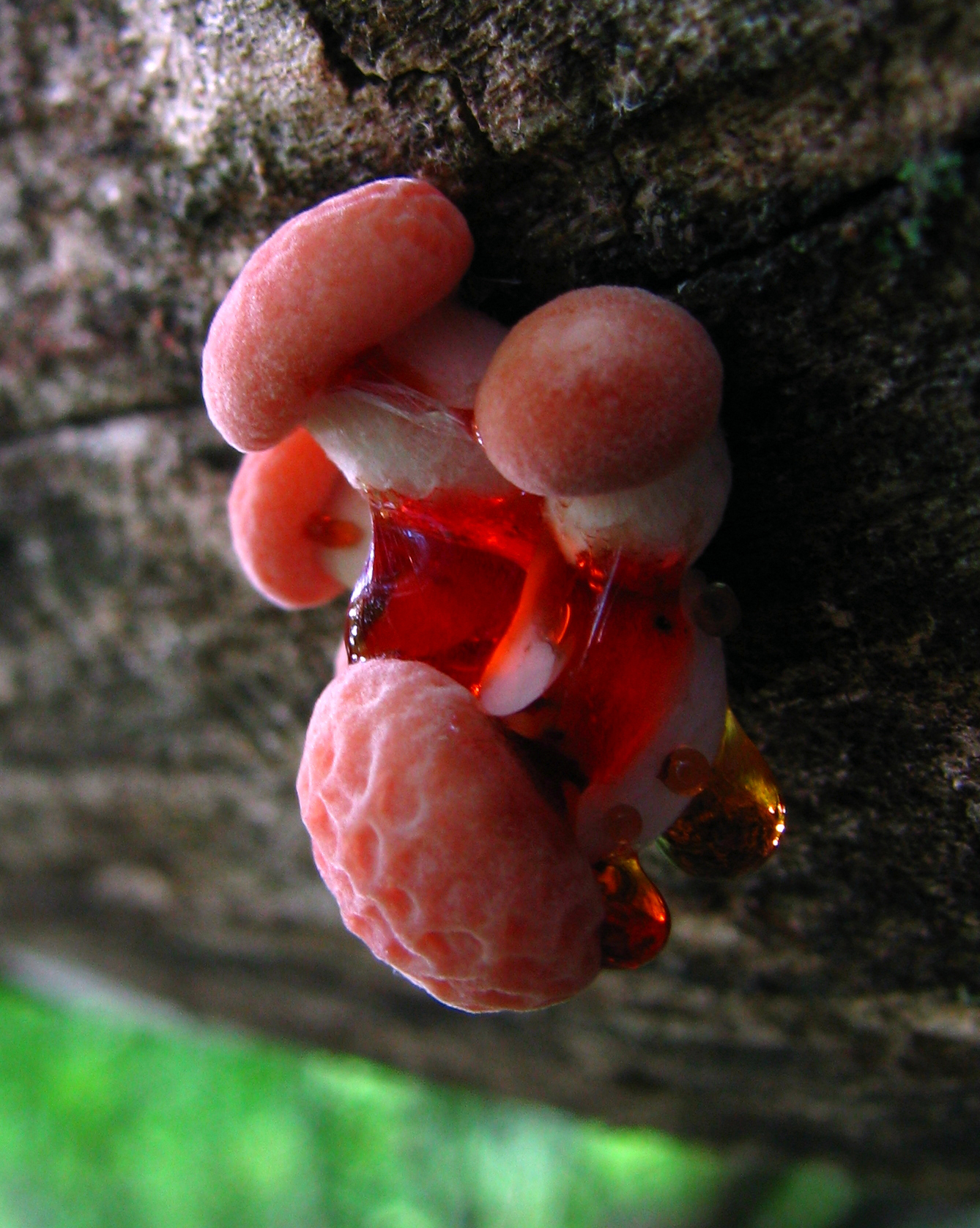 Young specimens of the "wrinkled peach" fungus, species. Rhodotus palmatus. Photographed in Strouds Run State Park, Athens, Ohio, USA. Original photo cropped by uploader.